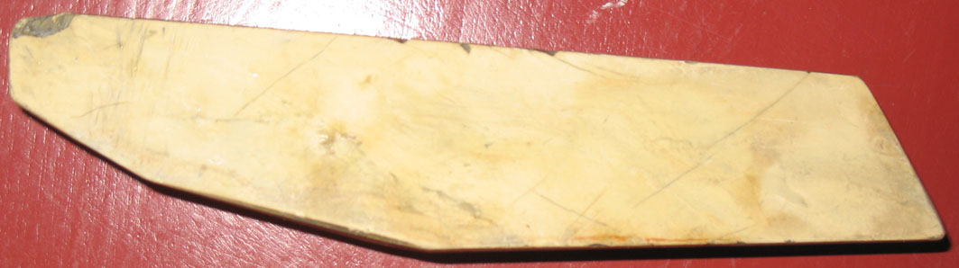 Broksten, hvættesten (hvæssesten). This file was made by B. M. Askholm, Please credit this: B. Askholm foto, July 2006 An email to B. Mathias at baskholm(--) would be appreciated too. This file was made by B. M. Askholm, Please credit this: B. Askholm foto, July 2006 An email to B. Mathias at baskholm(--) would be appreciated too.